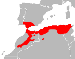 Podarcis vaucheri range map.